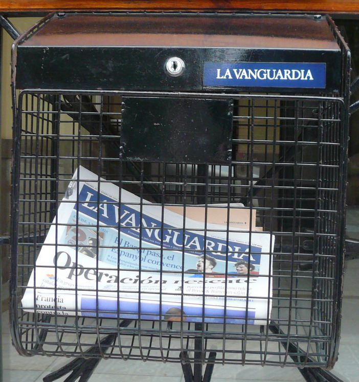 Box installed by La Vanguardia, where it delivers a subscriber's newspaper, in a house in La Bonanova (Barcelona).